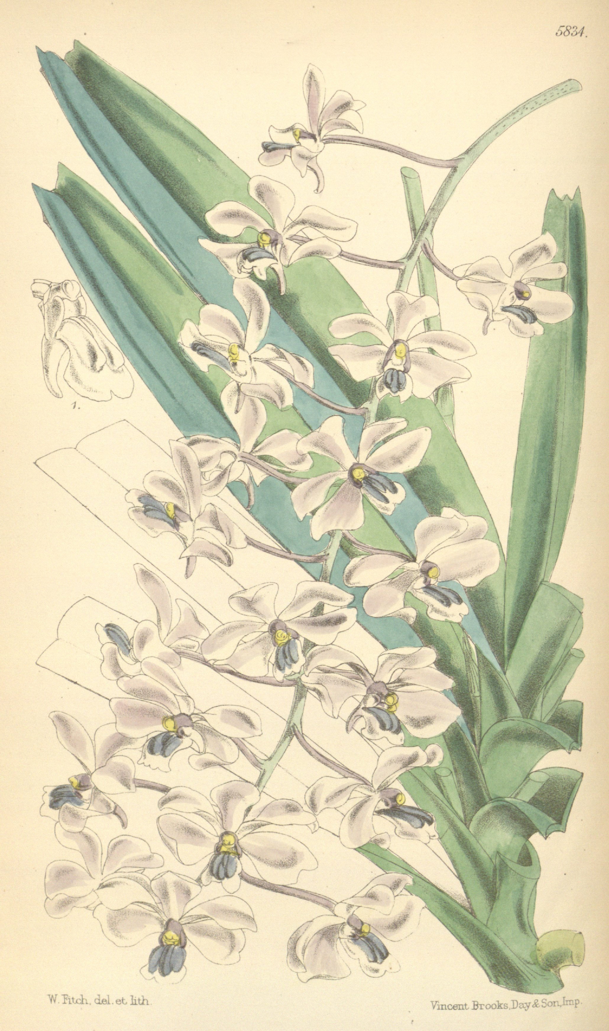 Illustration of Vanda coerulescens (Orig. Vanda caerulescens)